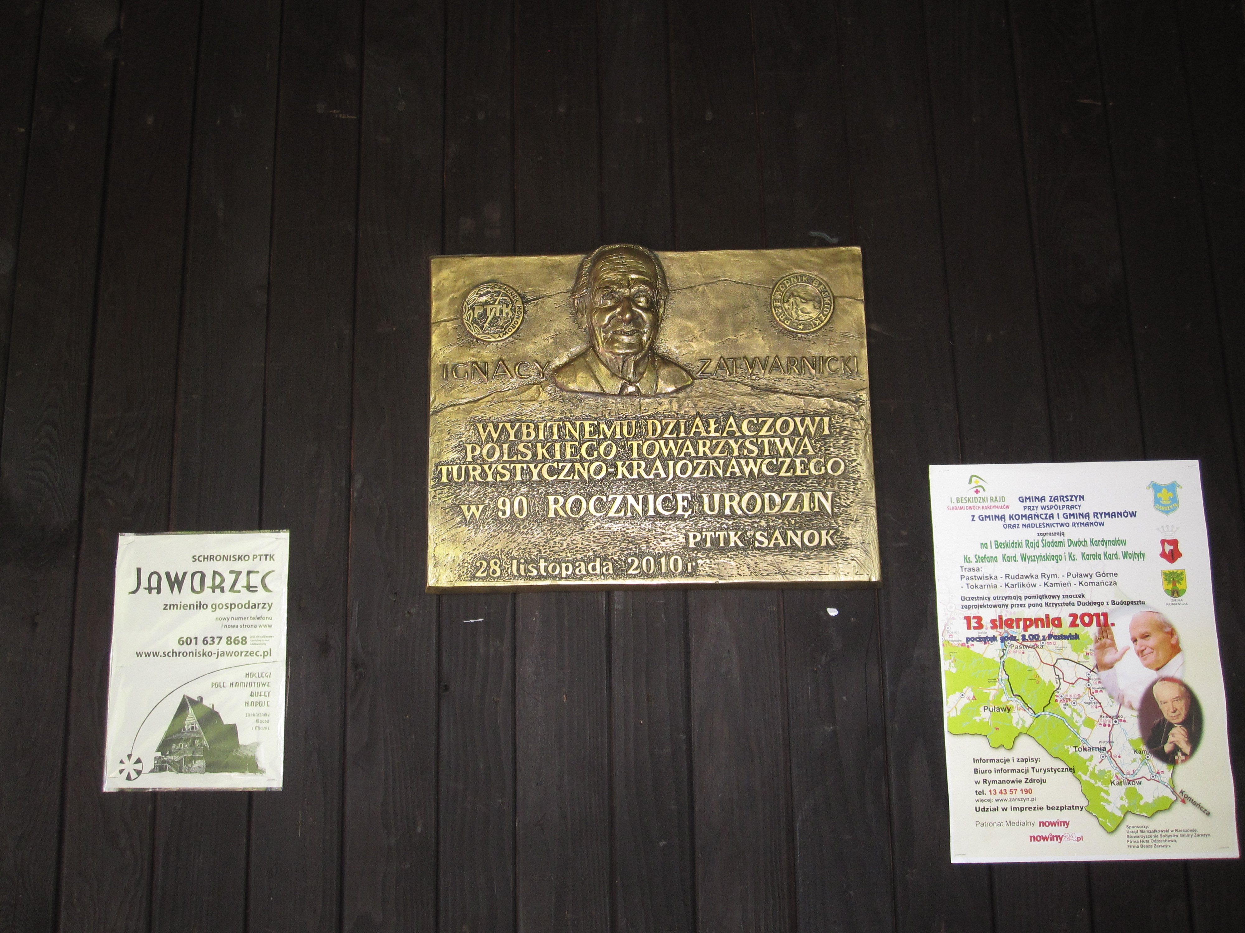 Plaque on the mountain hut building in Komańcza